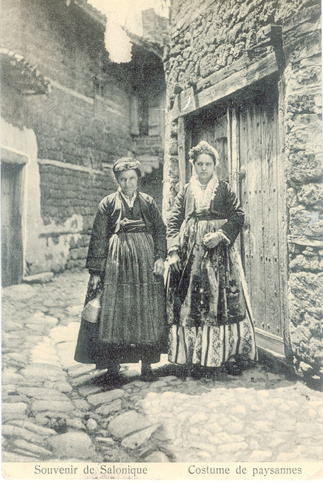 Varosh in Voden Ottoman Postcard 1905